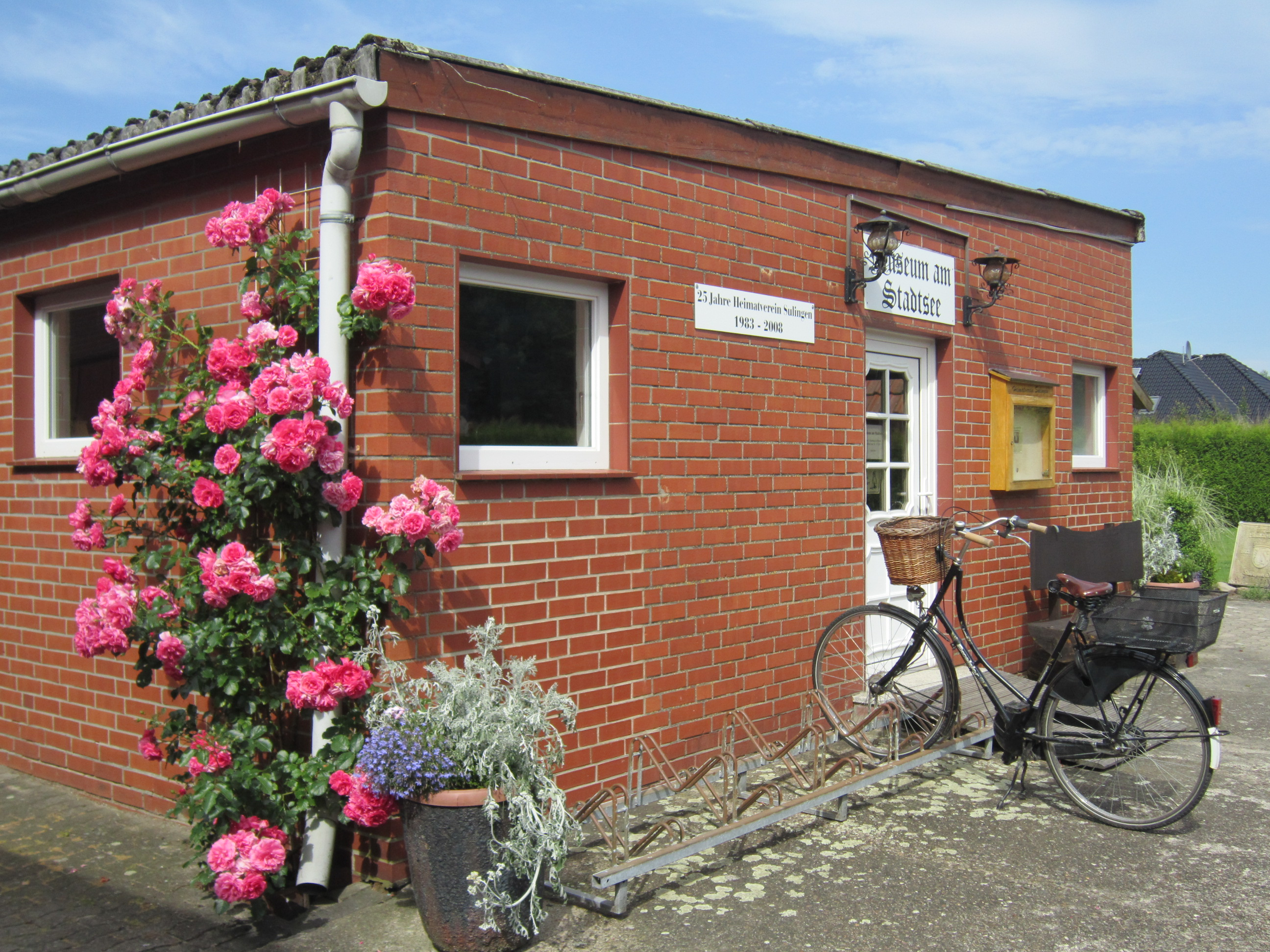 Museum at the Sulingen Town Lake